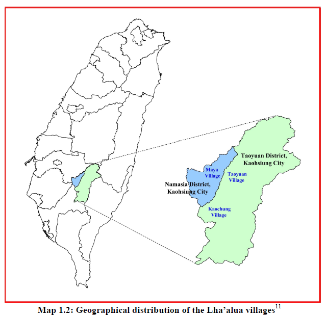 map indicating the location of the current villages where the language is spoken